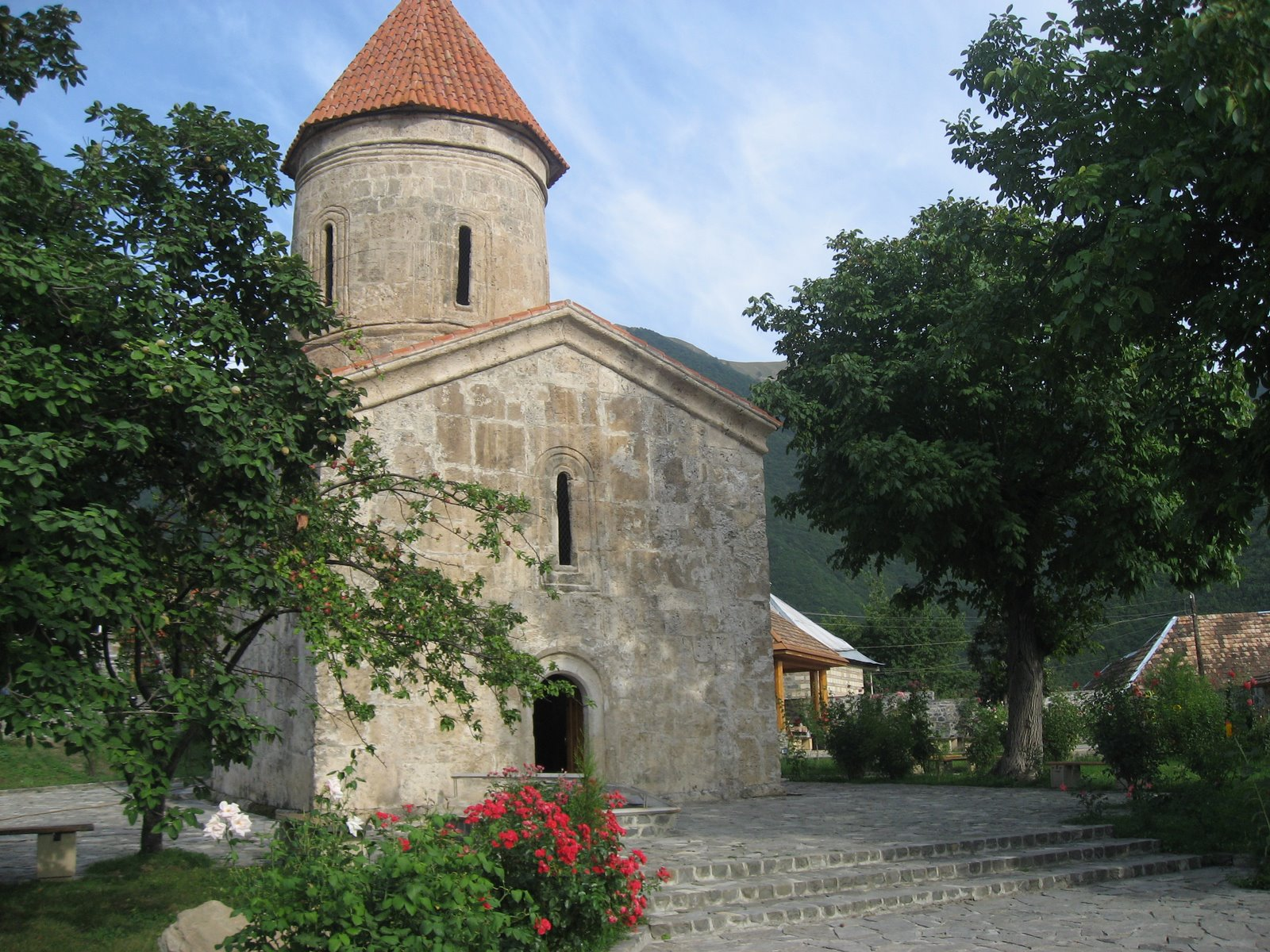 Church Kish, Church of St. Elisha.Front view of the